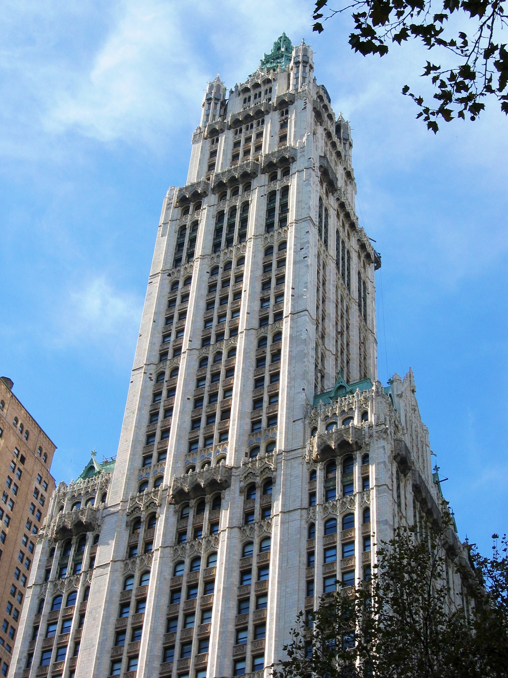 Woolworth Building in New York City was designed by Cass Gilbert and built in 1909. At the time, it was the world's tallest building. Photo by User:Aude, taken on November 13, 2005.